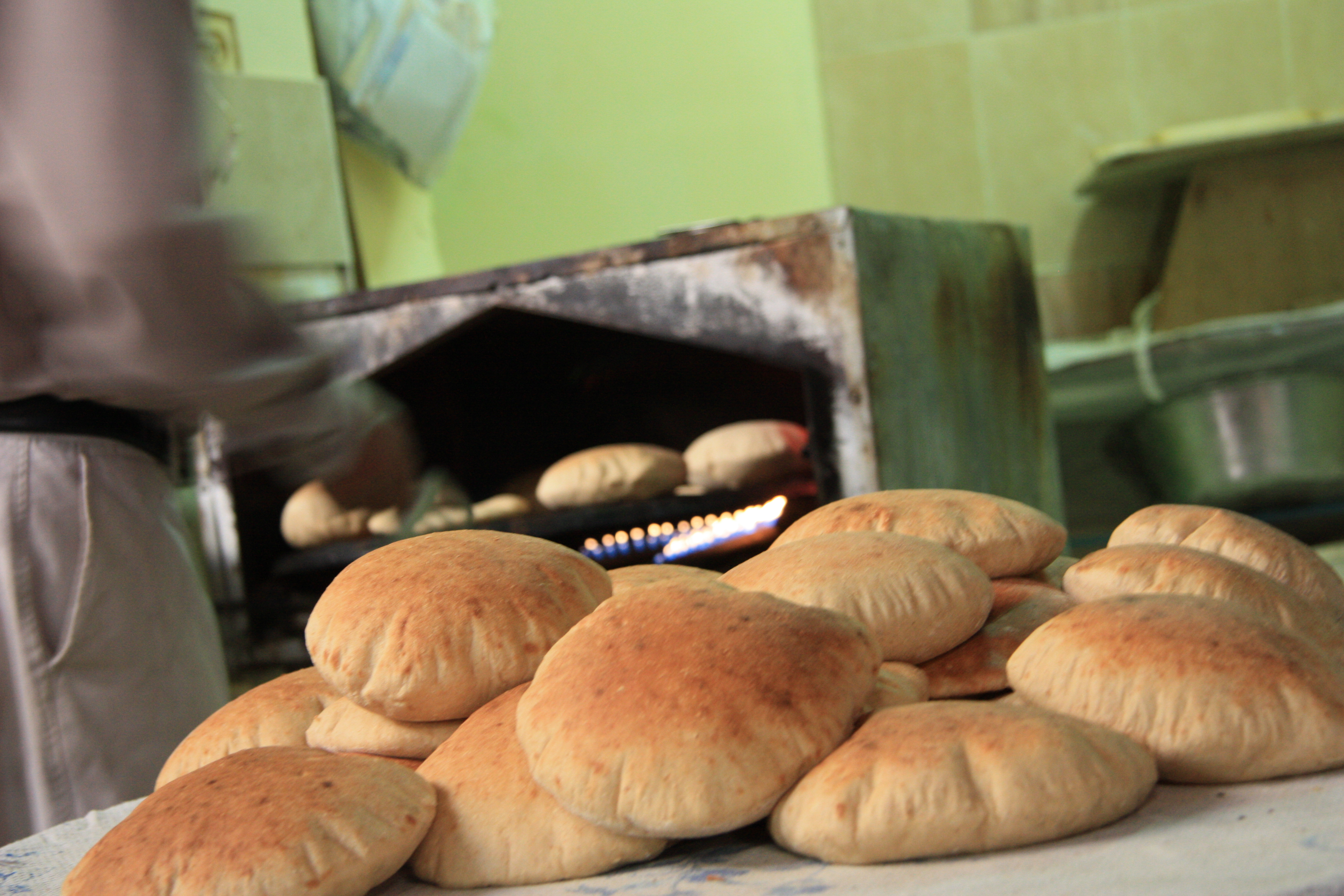 Pita bakery in Acre.